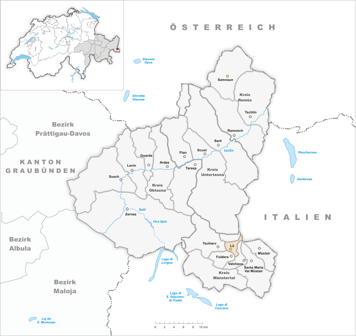 Municipality Lü